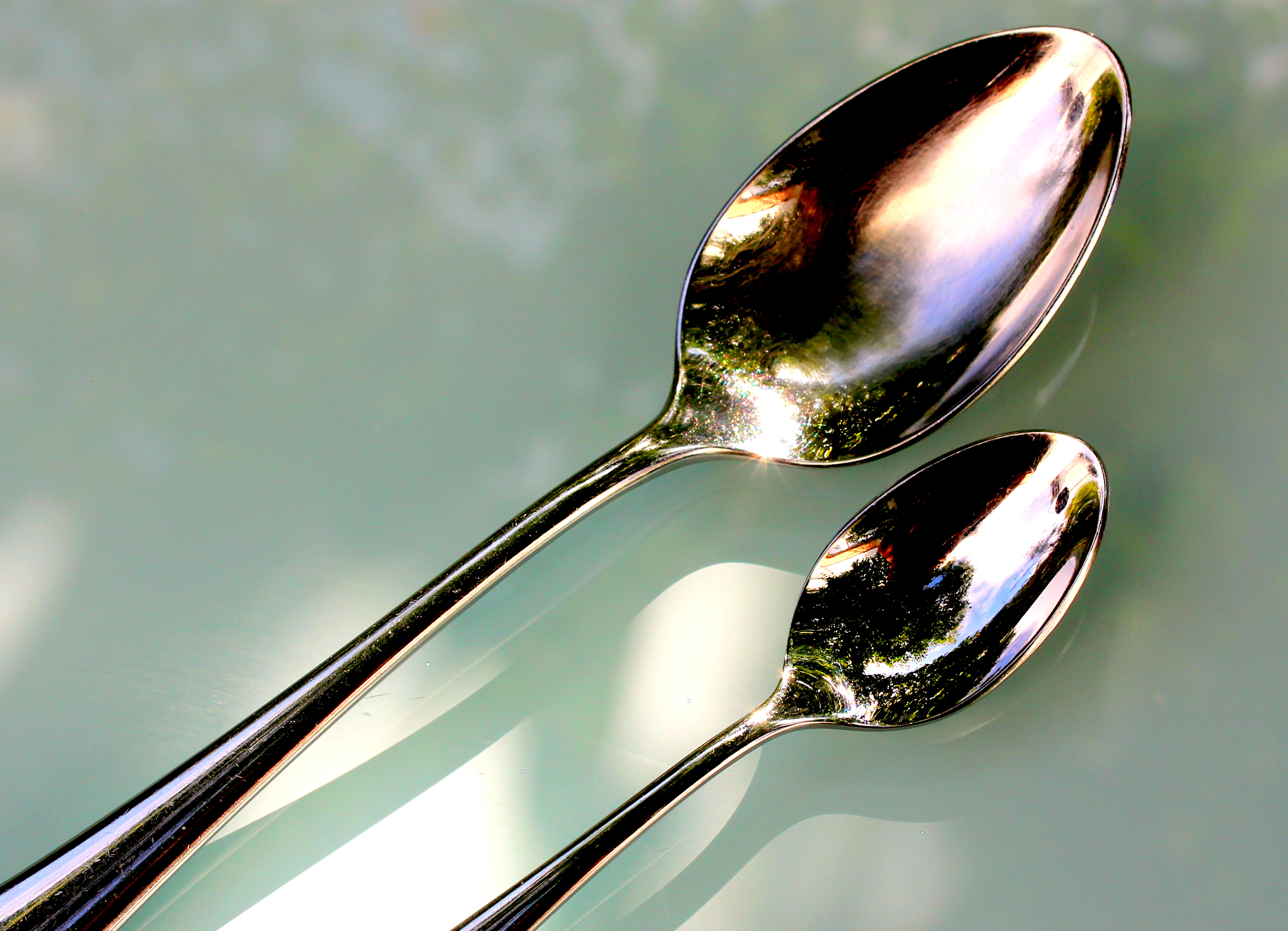 Tablespoon and teaspoon